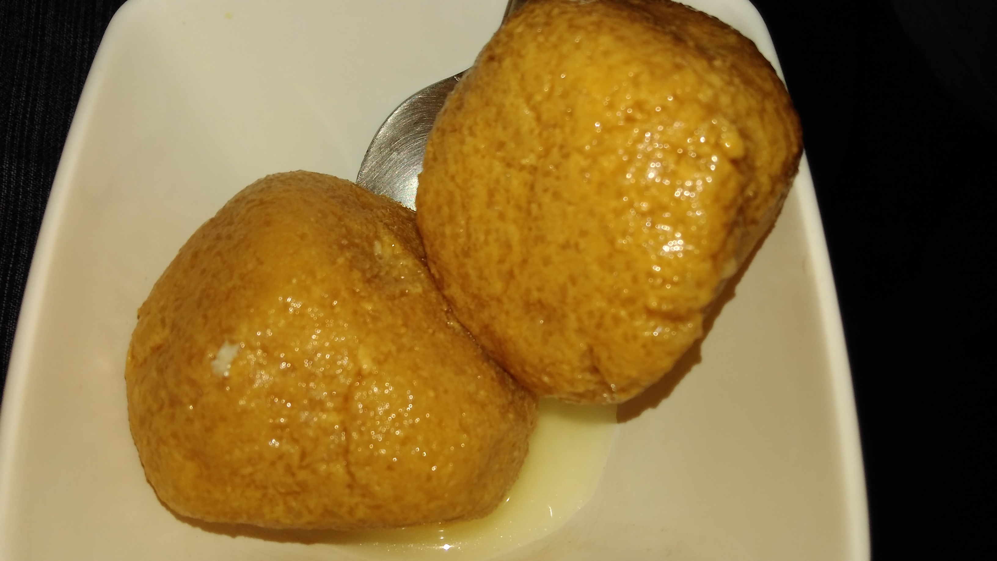 The awesome sweet originated in Odisha..